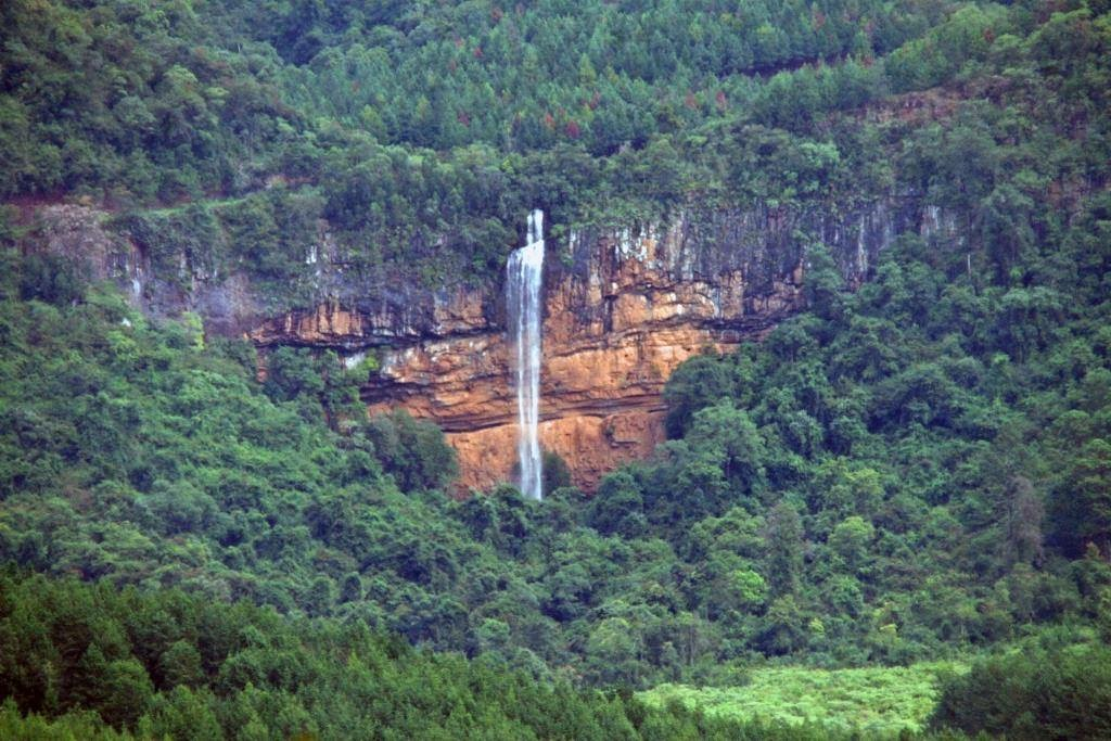 Bridal Veil Falls - Sabie Mpumalanga South Africa - Panorama Route